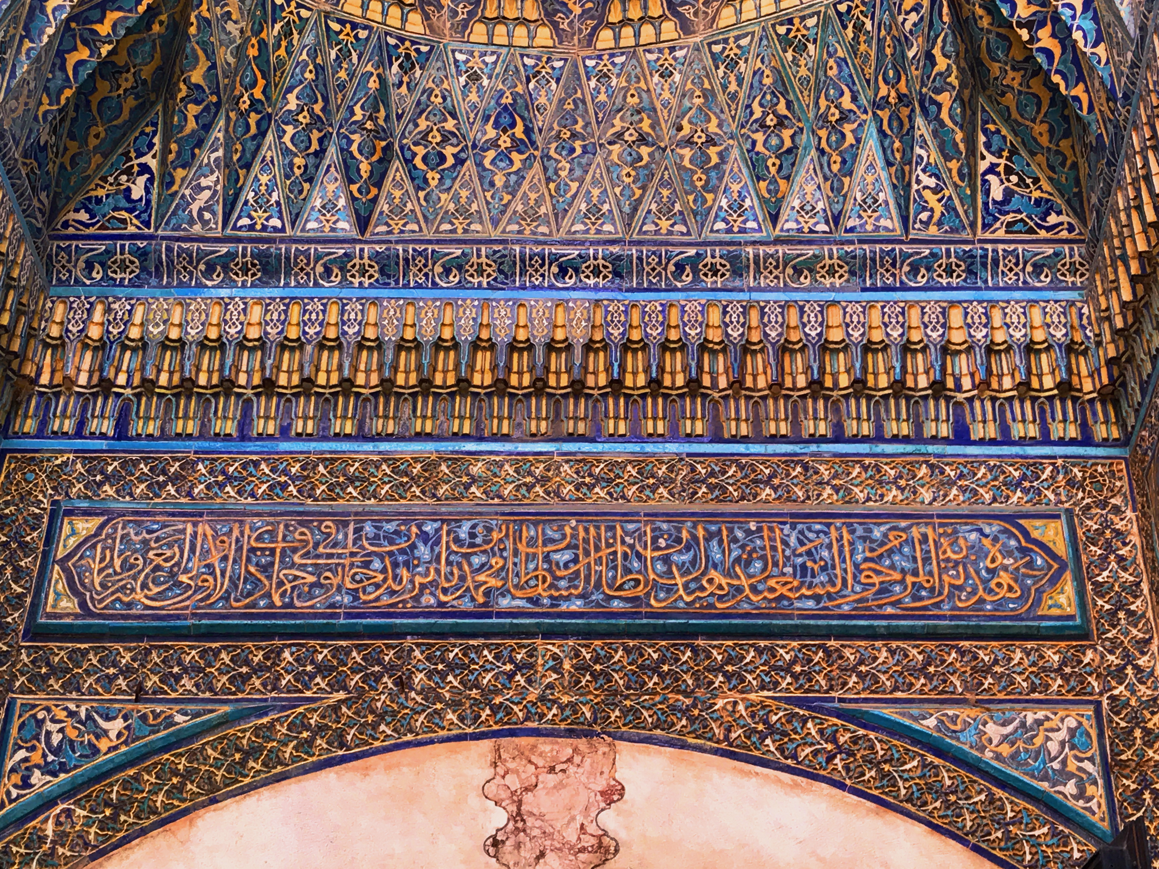 The Green Tomb (Yeşil Türbe) is a mausoleum of the fifth Ottoman Sultan, Mehmed I, in Bursa, Turkey. It was built by Mehmed's son and successor Murad II following the death of the sovereign in 1421. The architect, Hacı Ivaz Pasha designed the tomb and the Yeşil Mosque opposite to it